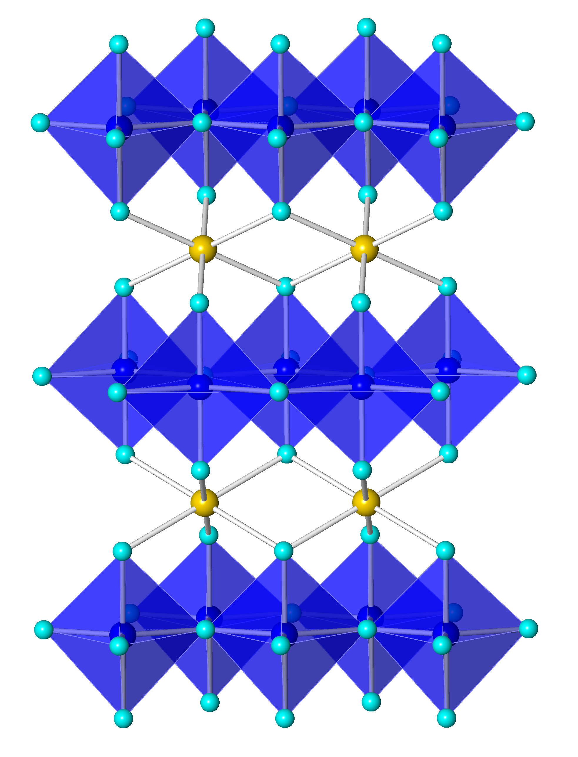 Crystal structure of YInMn Blue